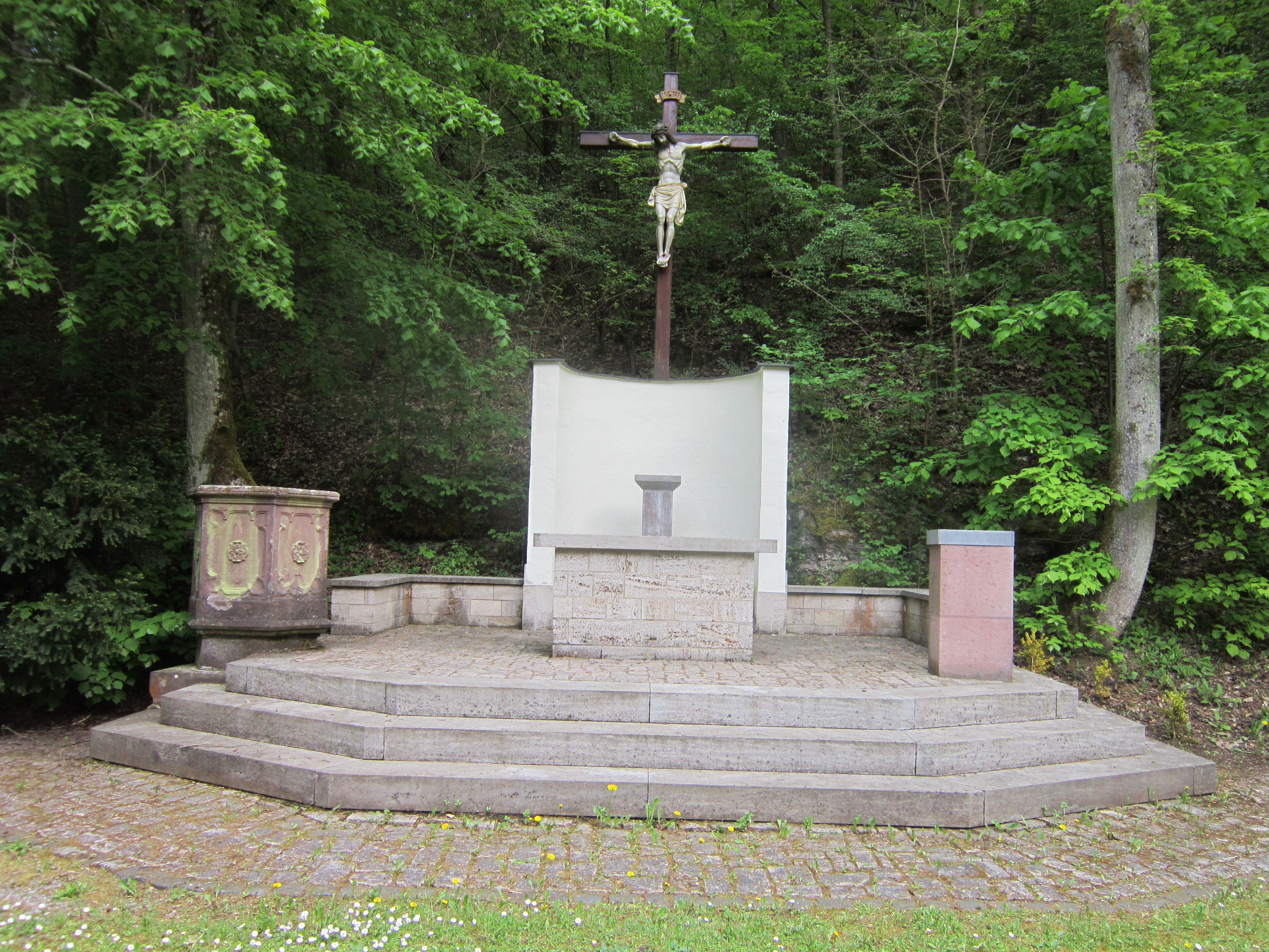 Open air altar at the Maria Steinthal Chapel in the German town of Hammelburg in Lower Franconia (Bavaria).